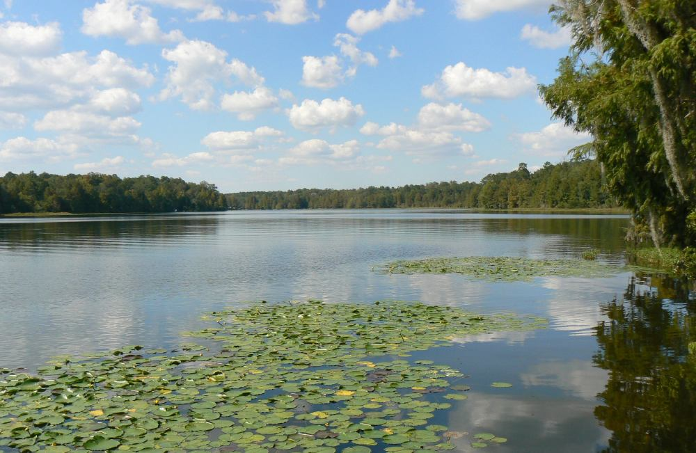 Lake Talquin, Florida USA, viewed towards the SW from the Gadsden Co. shore at Wallwood Scout Camp.